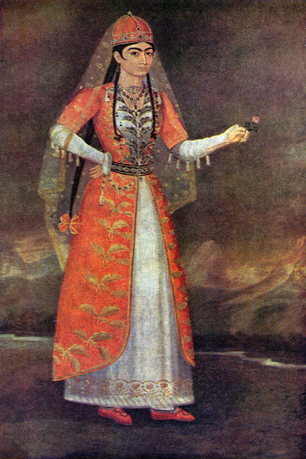 Portrait of Nino Eristavi, daughter of Tornike